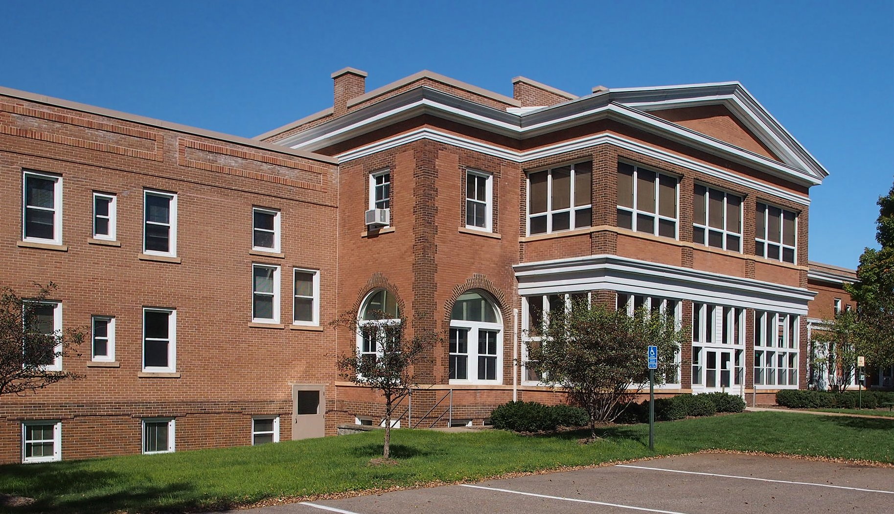 Mudbaden Sulphur Springs Company, 17706 Valley View Dr, Sand Creek Township, Minnesota, USA. Viewed from the south.